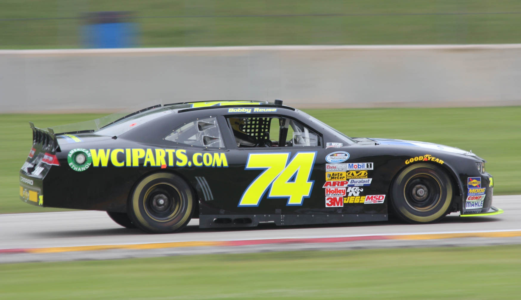 The passenger side of Bobby Reuse Nationwide car during the 2014 Gardner Denver 200 at Road America. Taken racing up the hill in turn 13.